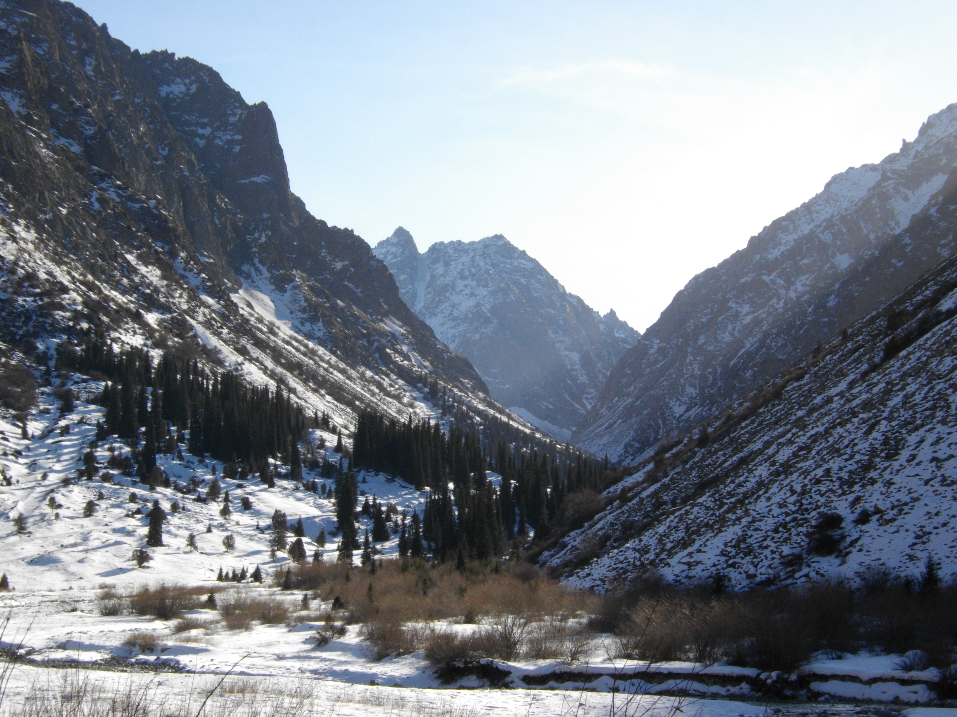 At Ala Archa National Park, Kyrgyz.